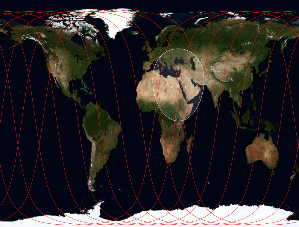 Ground track of satellite Metop-B. Made from US government TLE data by GPLed program gpredict which plots the ground track over an public domain map of the world which originates from NASA.